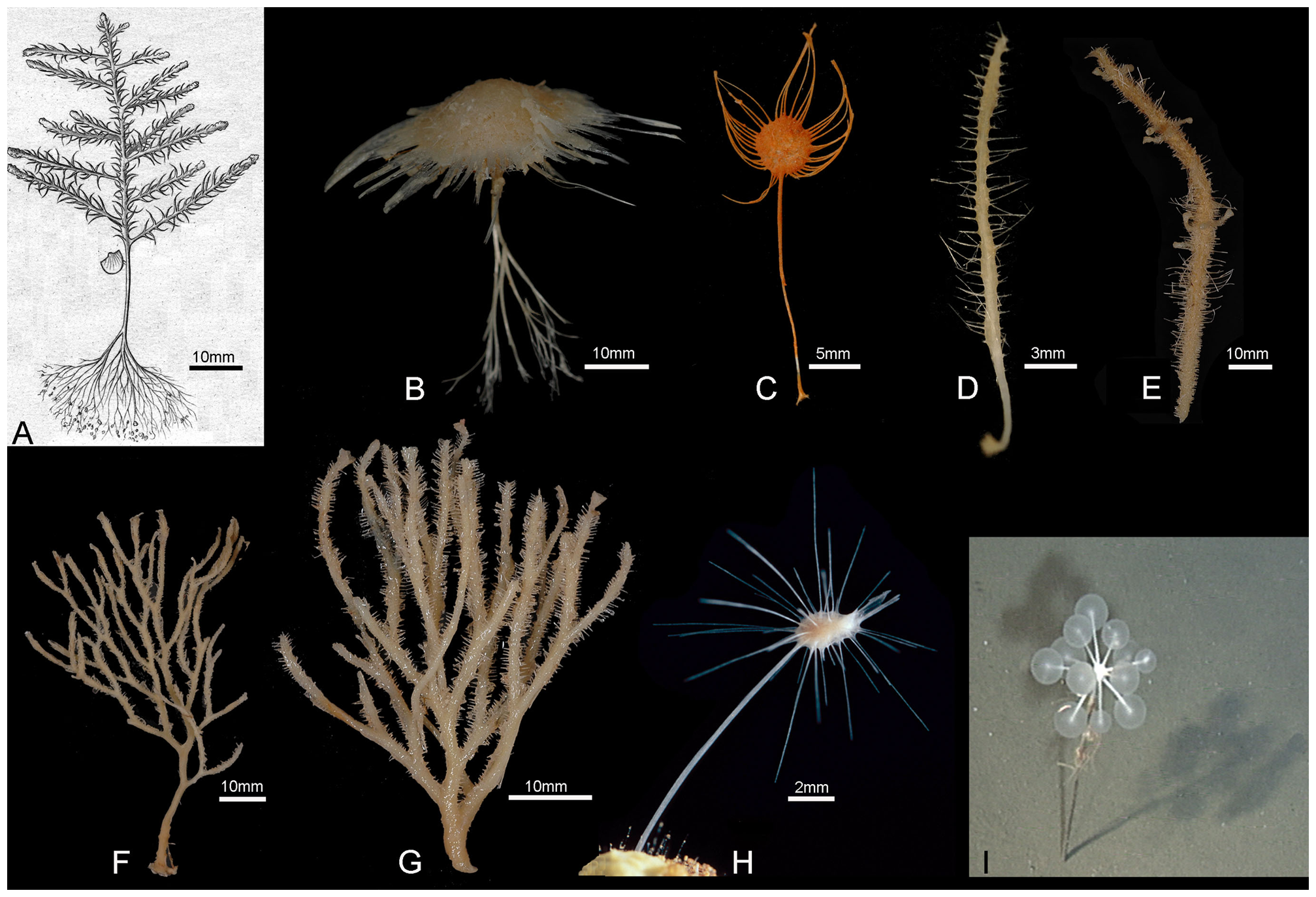 A. Cladorhiza abyssicola , scale approximate B. Cladorhiza sp., undescribed species from West Norfolk Ridge (New Zealand EEZ), 757 m (NIWA 25834); C. Abyssocladia sp., undescribed species from Brothers Seamount (New Zealand EEZ), 1336 m (NIWA 21378); D. Abyssocladia sp., undescribed species from Chatham Rise (New Zealand EEZ), 1000 m (NIWA 21337); E. Abyssocladia sp., undescribed species from Seamount 7, Macquarie Ridge (Australian EEZ), 770 m (NIWA 40540); F. Asbestopluma (Asbestopluma) desmophora, holotype QM G331844, from Macquarie Ridge (Australian EEZ), 790 m (from Fig. 5A in [47]); G. Abyssocladia sp., undescribed species from Seamount 8, Macquarie Ridge (Australian EEZ), 501 m (NIWA 52670); H. Asbestopluma hypogea from [41]; I. Chondrocladia lampadiglobus (from Fig. 17A in [48]).